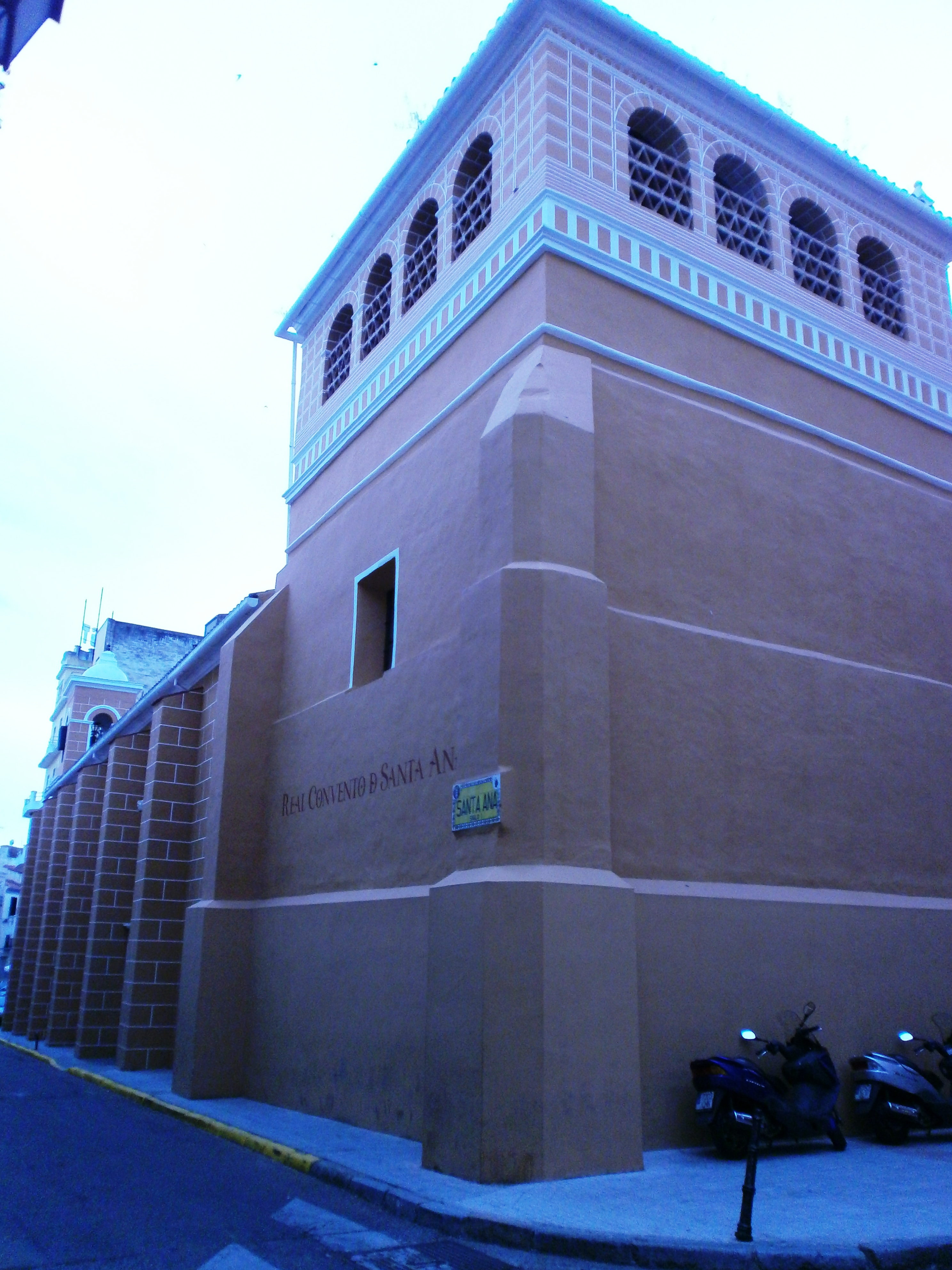 BA-Convento Santa Ana